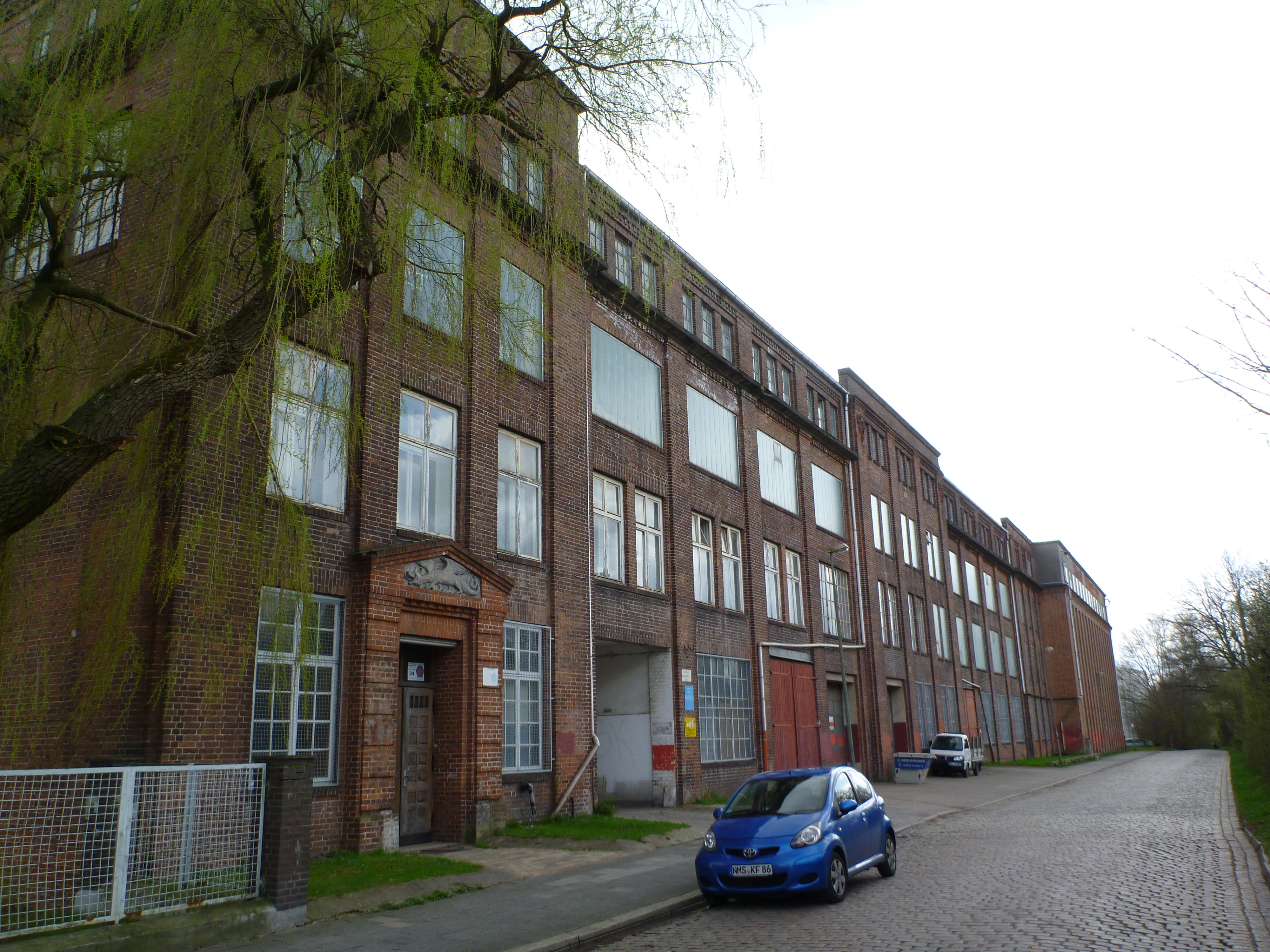 Front view of the former, leather company Emil Köster at Wrangelstraße 34-34a, Cultural heritage monuments in Neumünster